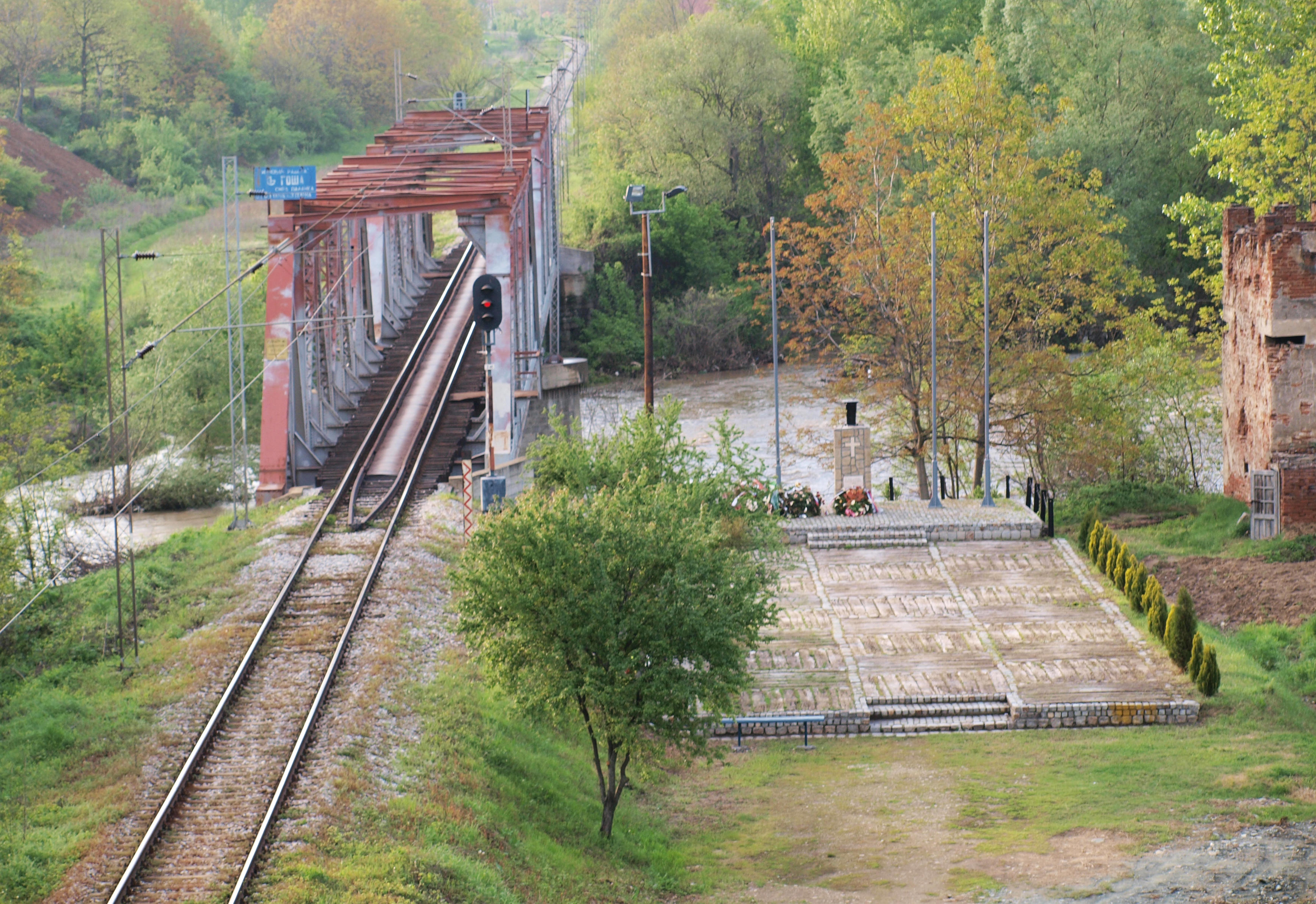 Railway bridge and monument to civilian victims of NATO airstrike in 1999. on passanger train. Grdelica gorge, Serbia. Српски (ћирилица): Мост где је био погођен путнички воз за време НАТО агресије 1999. Поред стоји спомен обилежје.